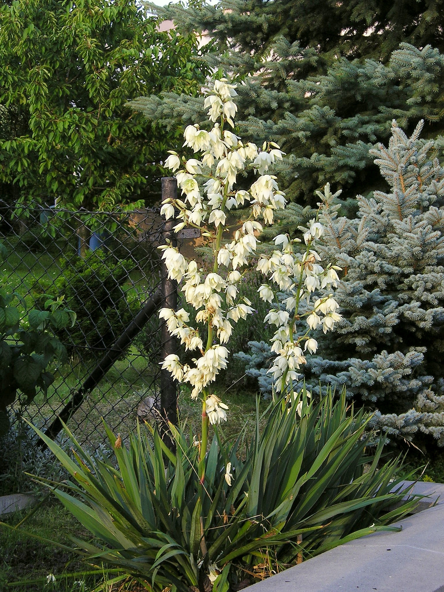 Yukka (Yucca filamentosa) im Juni 2007 Creative Commons Licence BY 2.0 Quellenangabe / Credit: Photo by Maja Dumat